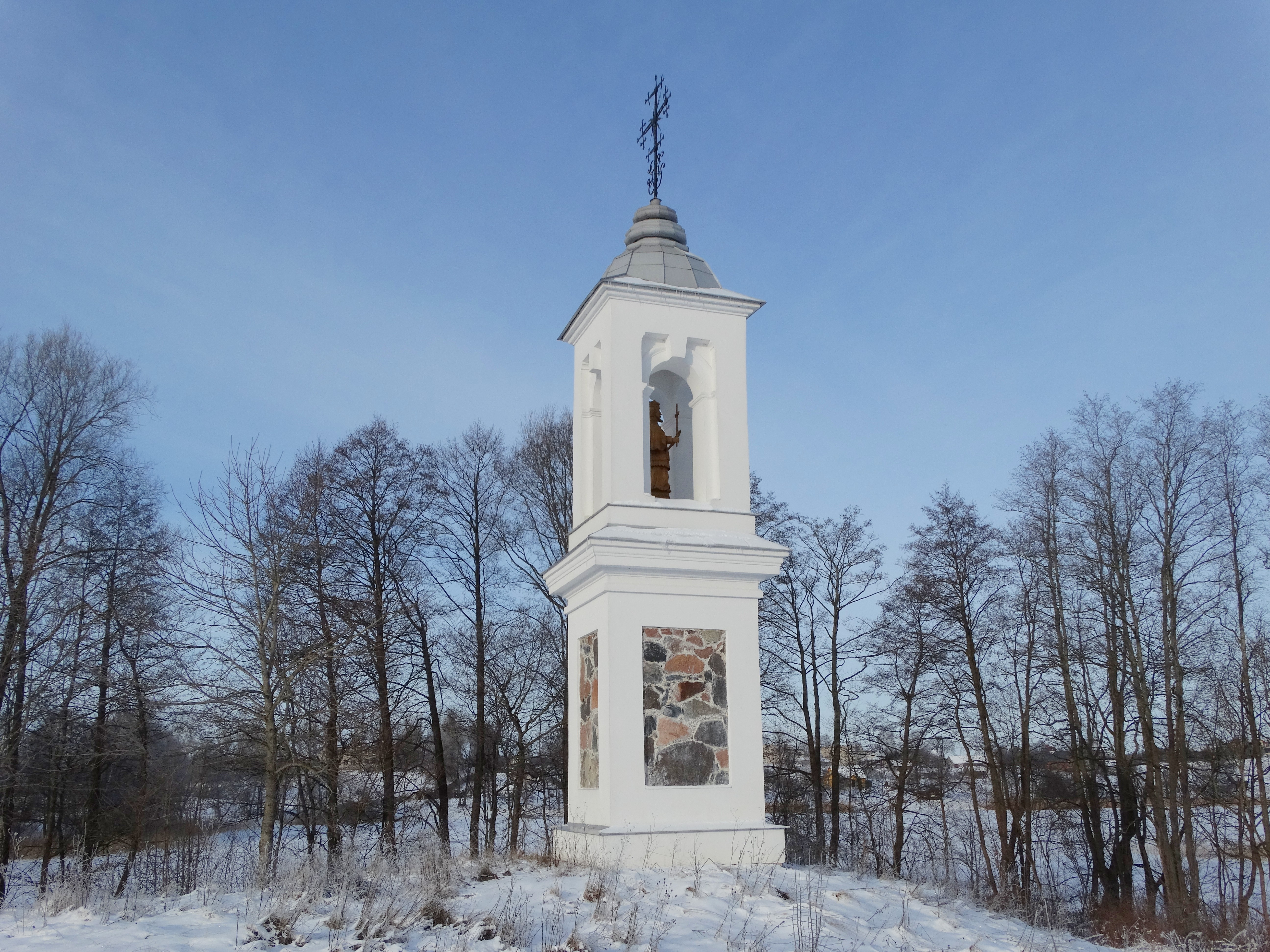 Brick tower chapel, Daugirdiškės, Elektrėnai Municipality, Lithuania